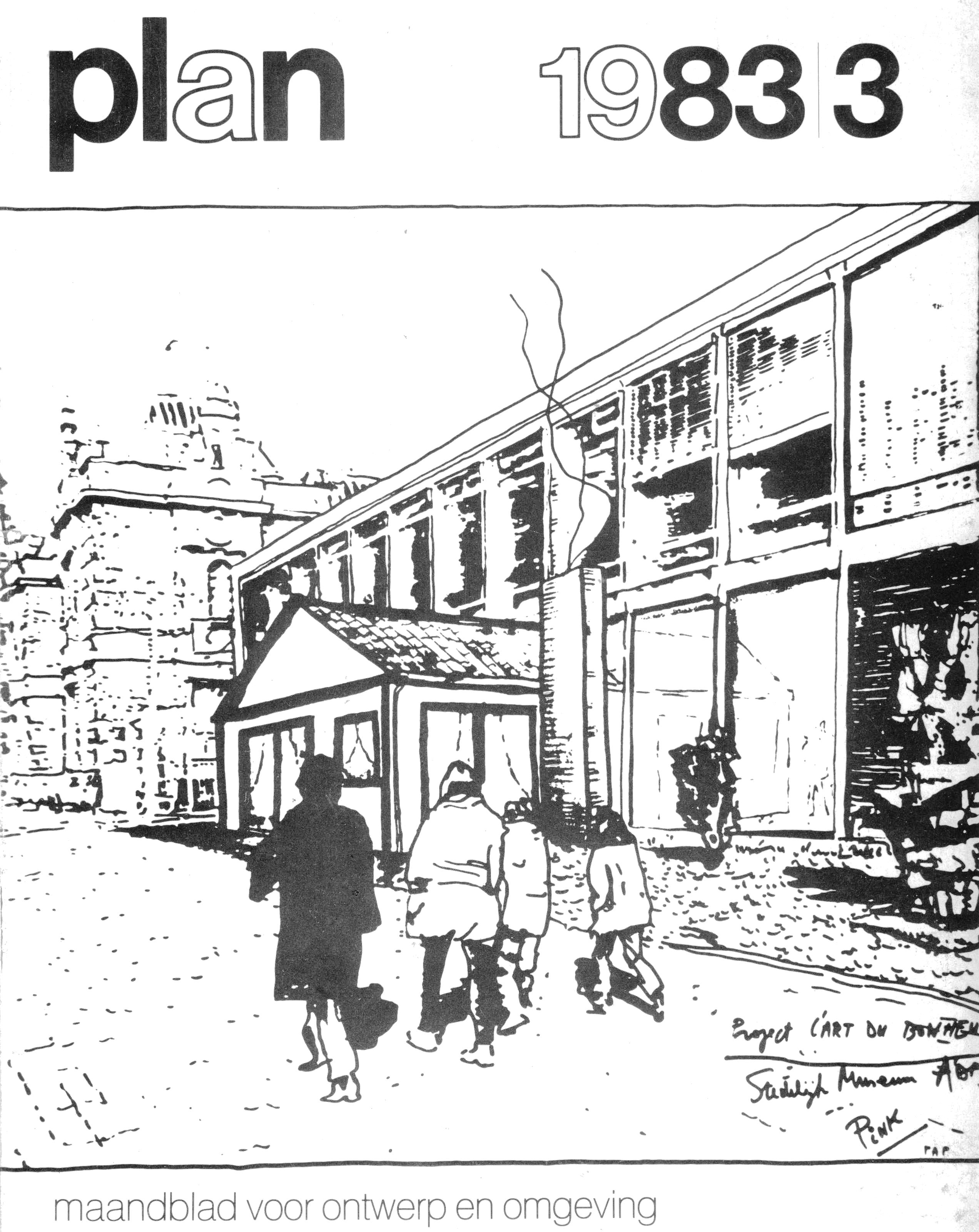 Stedelijk Museum Amsterdam 1983. With Christmas MWC lives a fortnight in their home in & out the New Wing